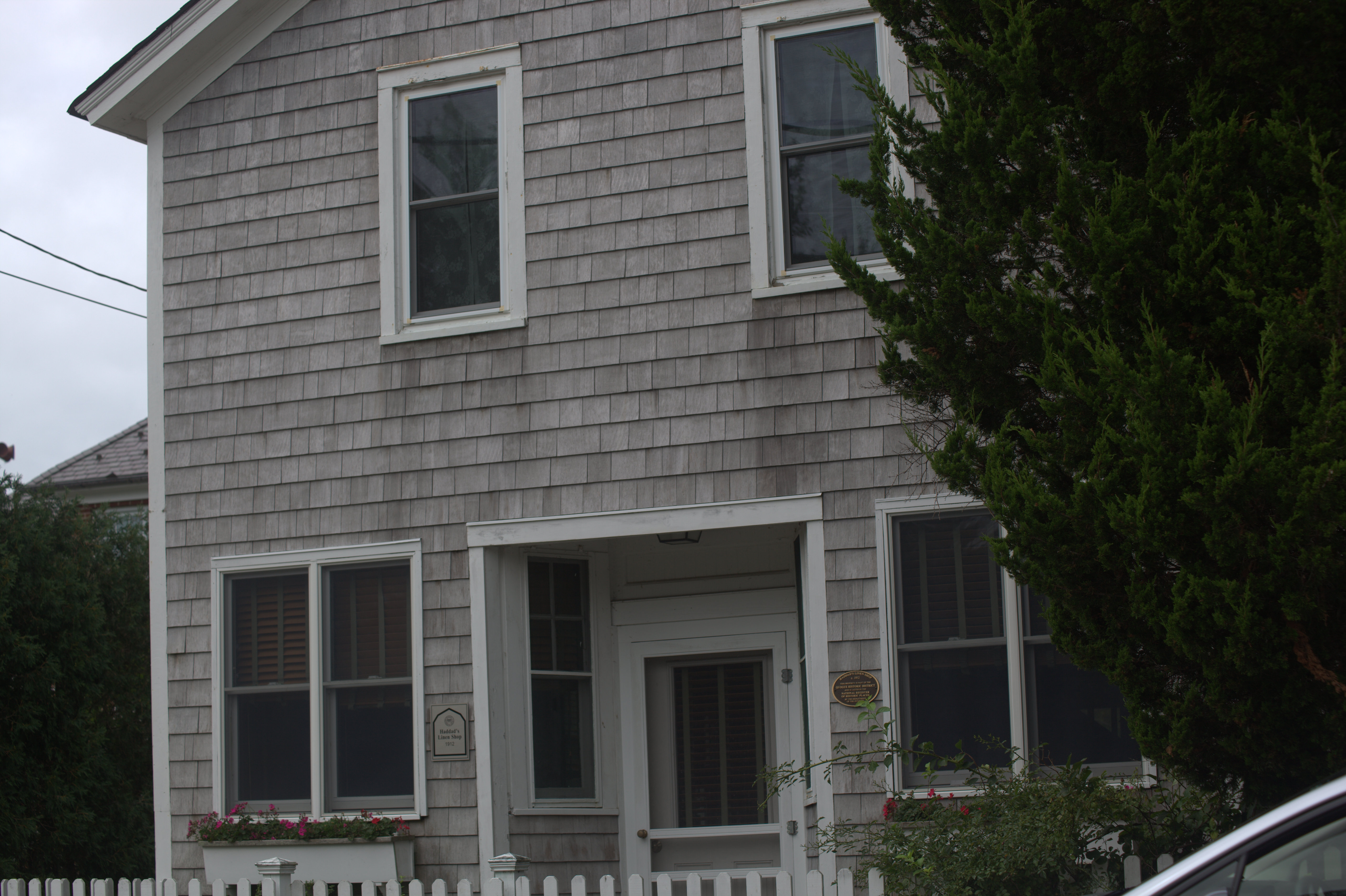 Landmarked shop, NRHP Added to the State Register in December 2015 and National Register on February 2, 2016 District